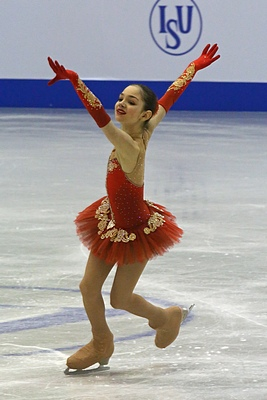 Evgenia Medvedeva at the Junior World Championships 2014 - Short program